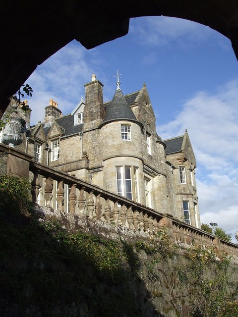 Torosay Castle, Isle of Mull, Scotland. Designed by David Bryce and built 1858 for John Campbell of Possil.